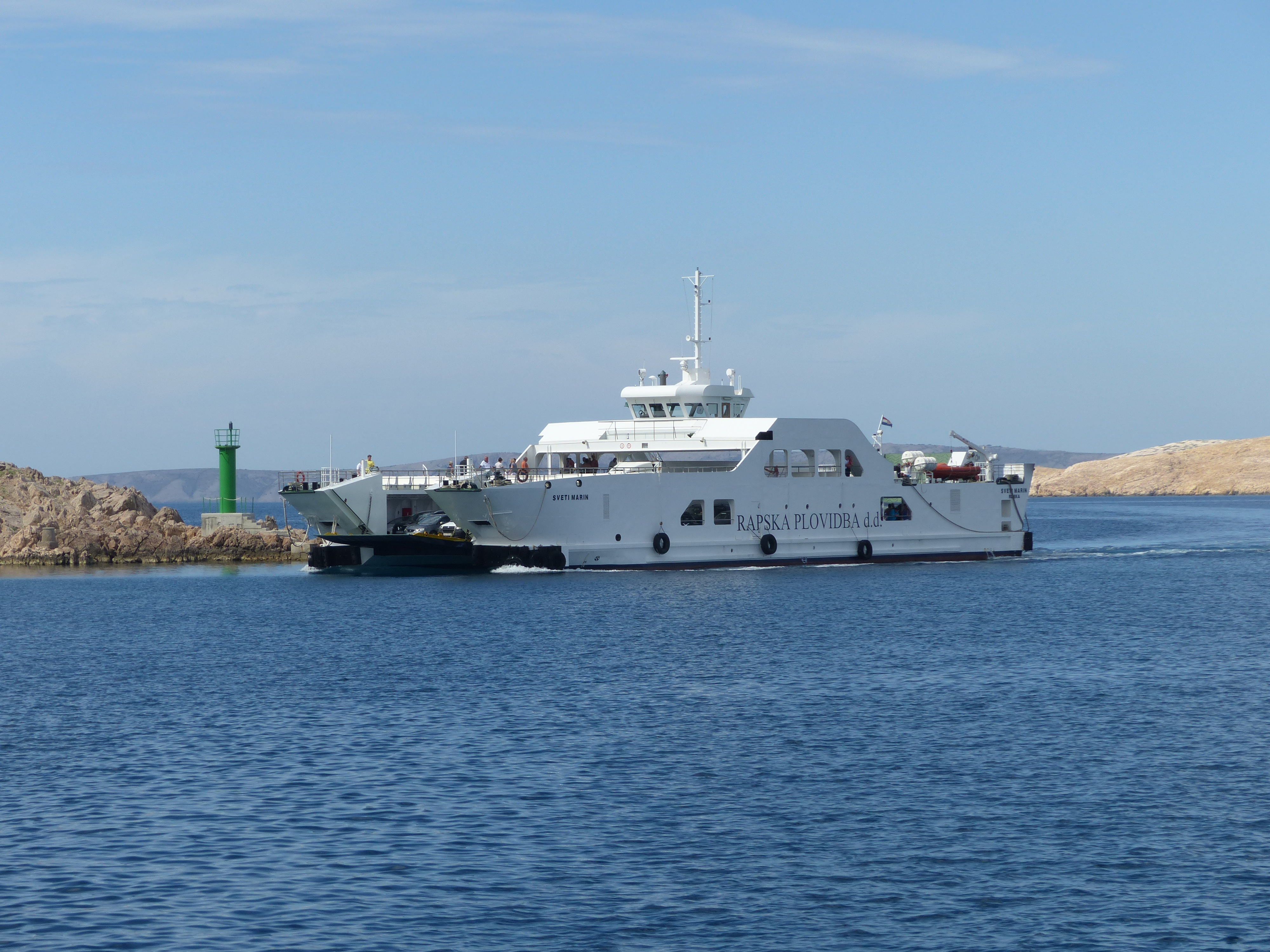 Taken on the 30th of June, 2016. Jablanac, Croatia. Jablanac - Misnjak ferry. Rapska Plovidba (ship).